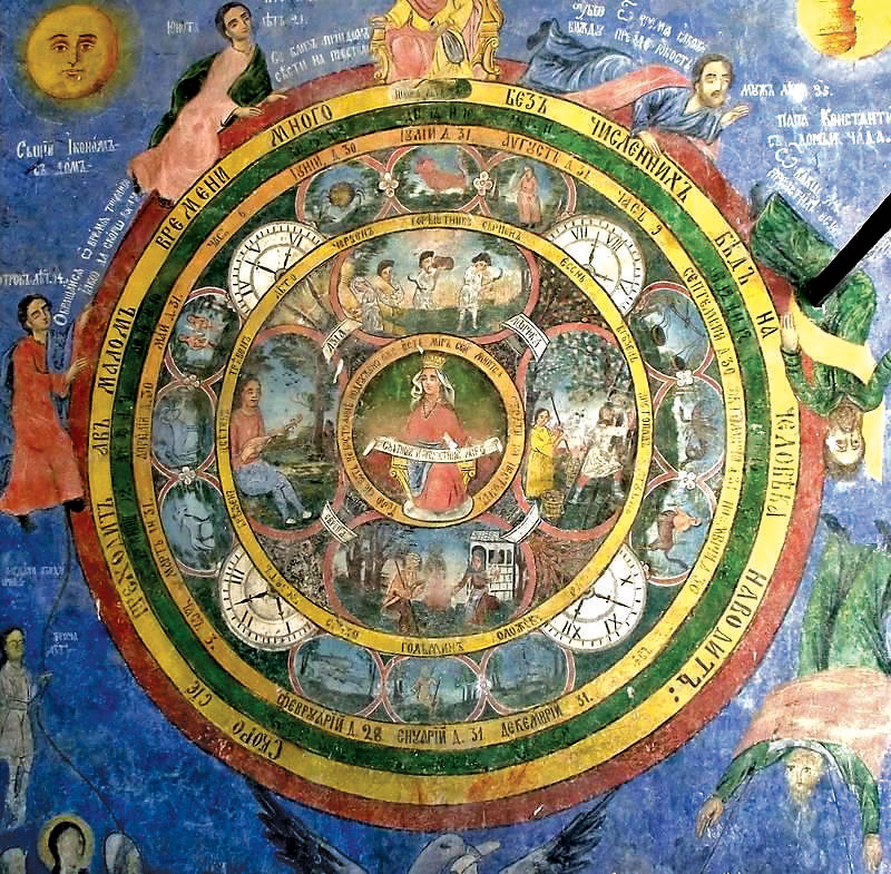 Mihalko Golev's Fresco in Presentaton of Mary Church in Gorna Dzhumaya